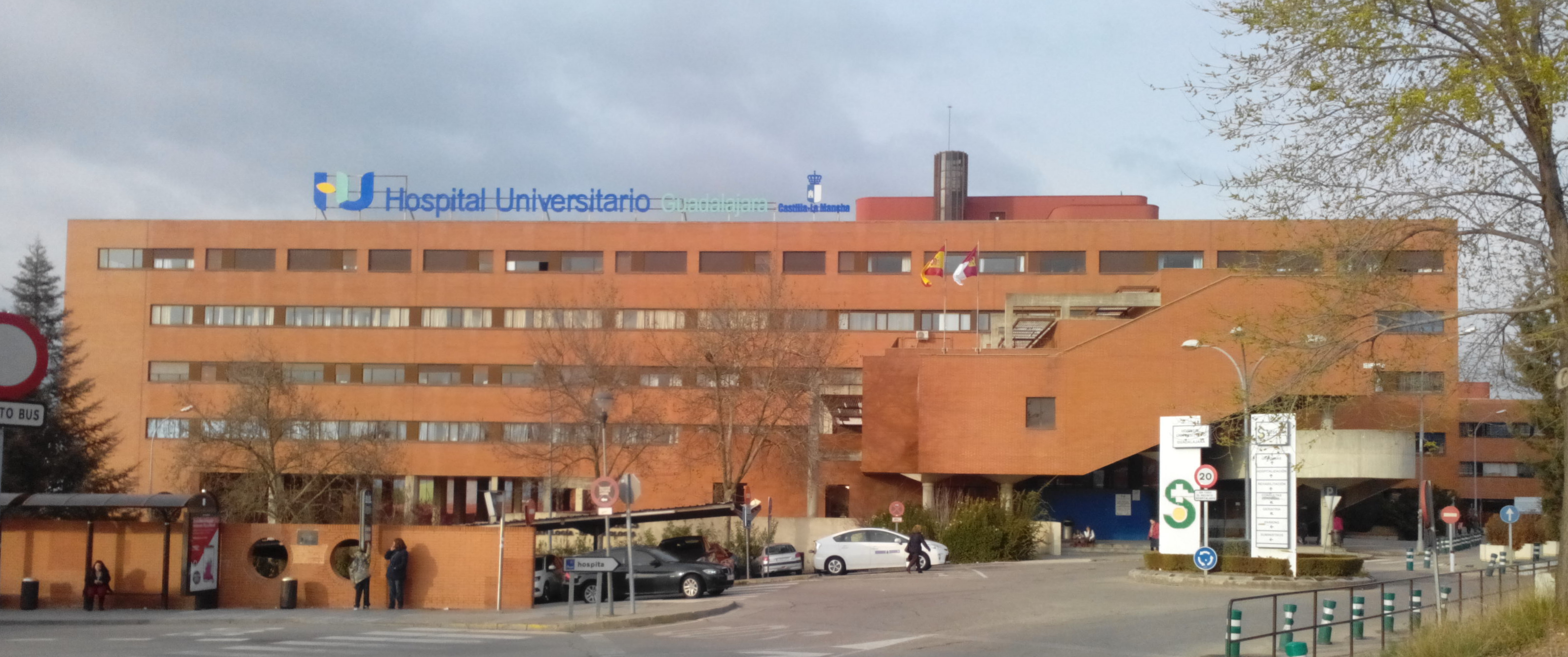 Overview of the Hospital Universitario de Guadalajara, Guadalajara (Castile-La Mancha - Spain). Inaugurated on January 25, 1982.